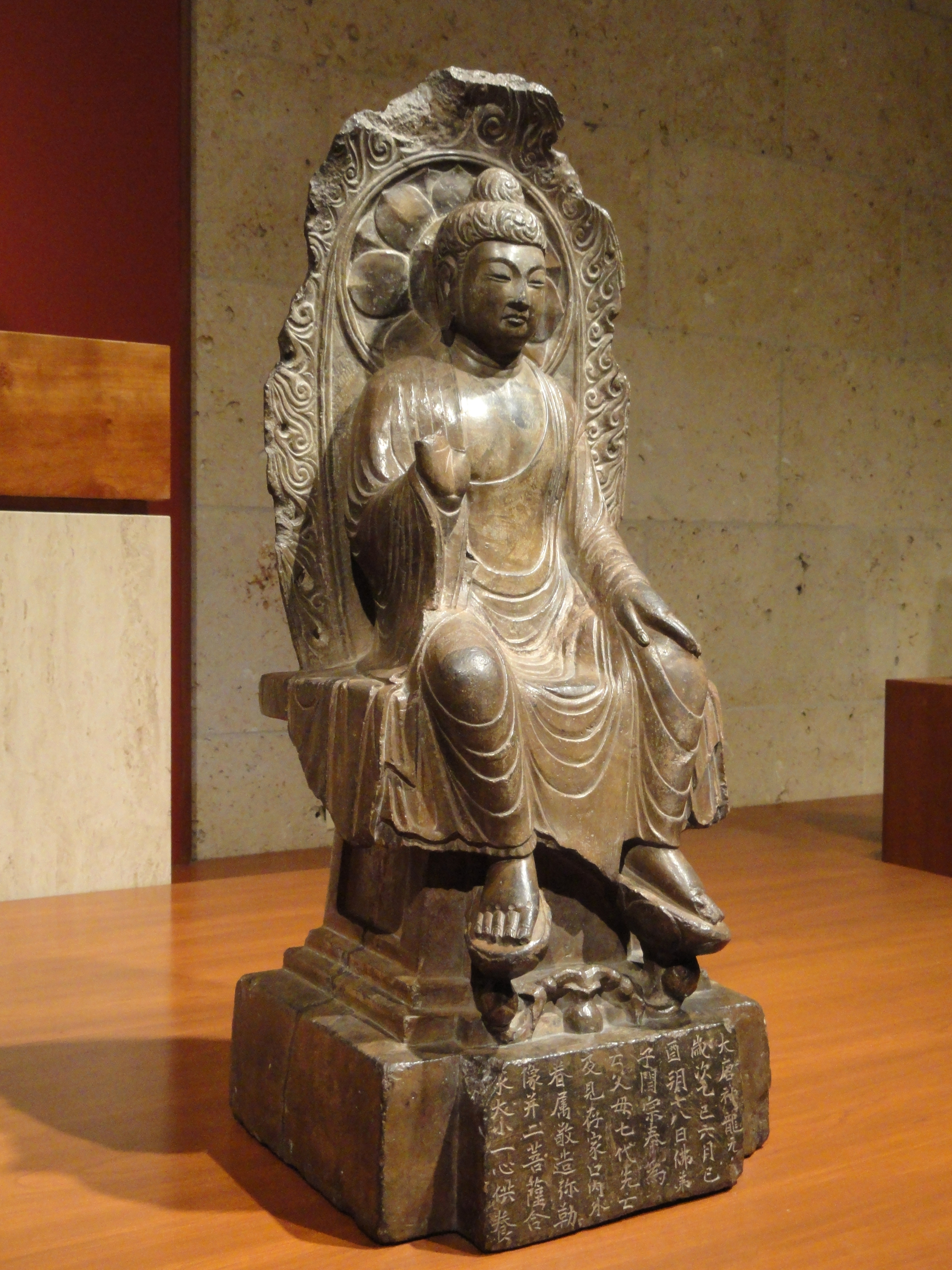 Exhibit in the Art Institute of Chicago, Chicago, Illinois, USA. This artwork is in the public domain because the artist died more than 70 years ago.